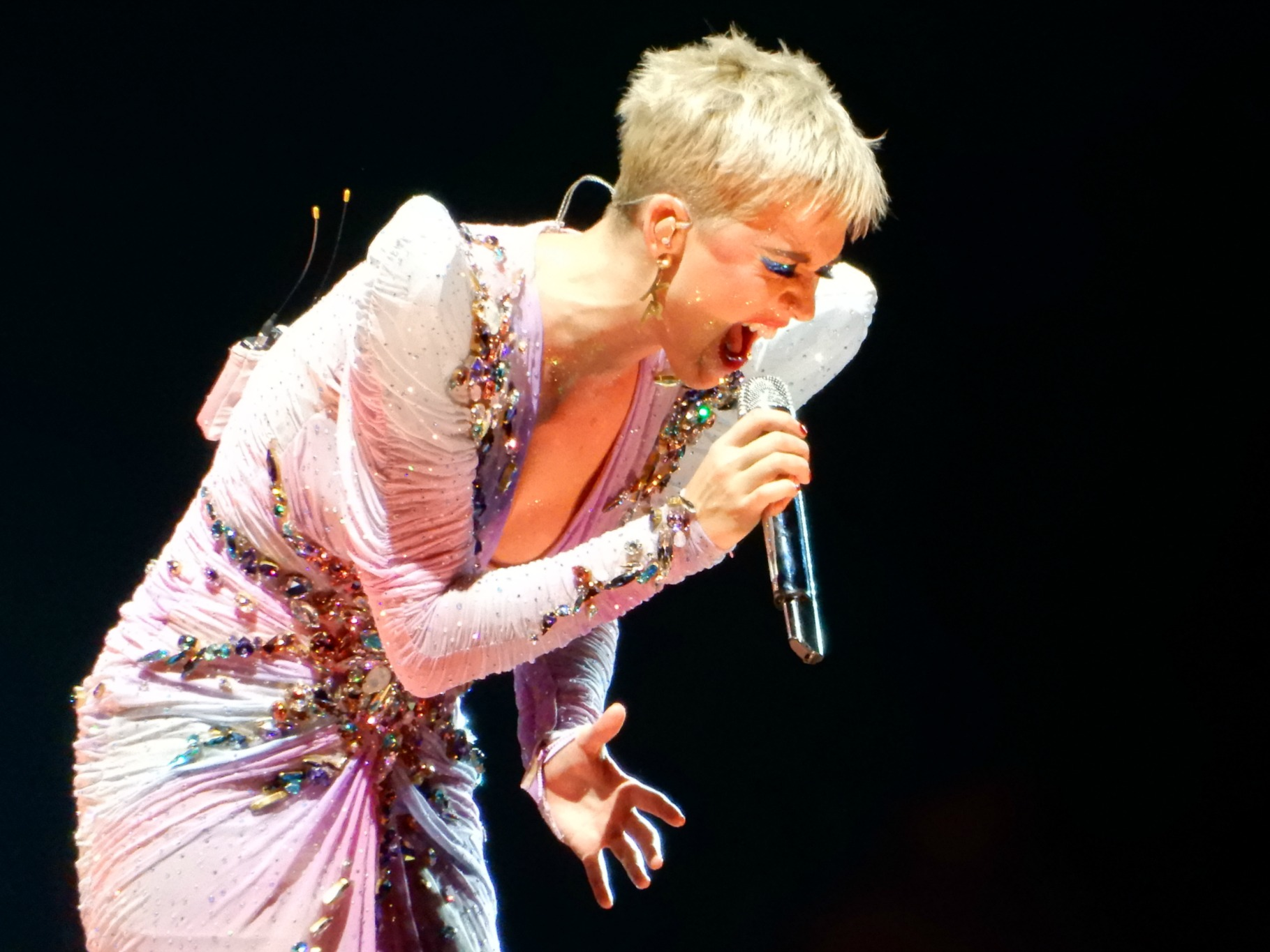 Firework Encore